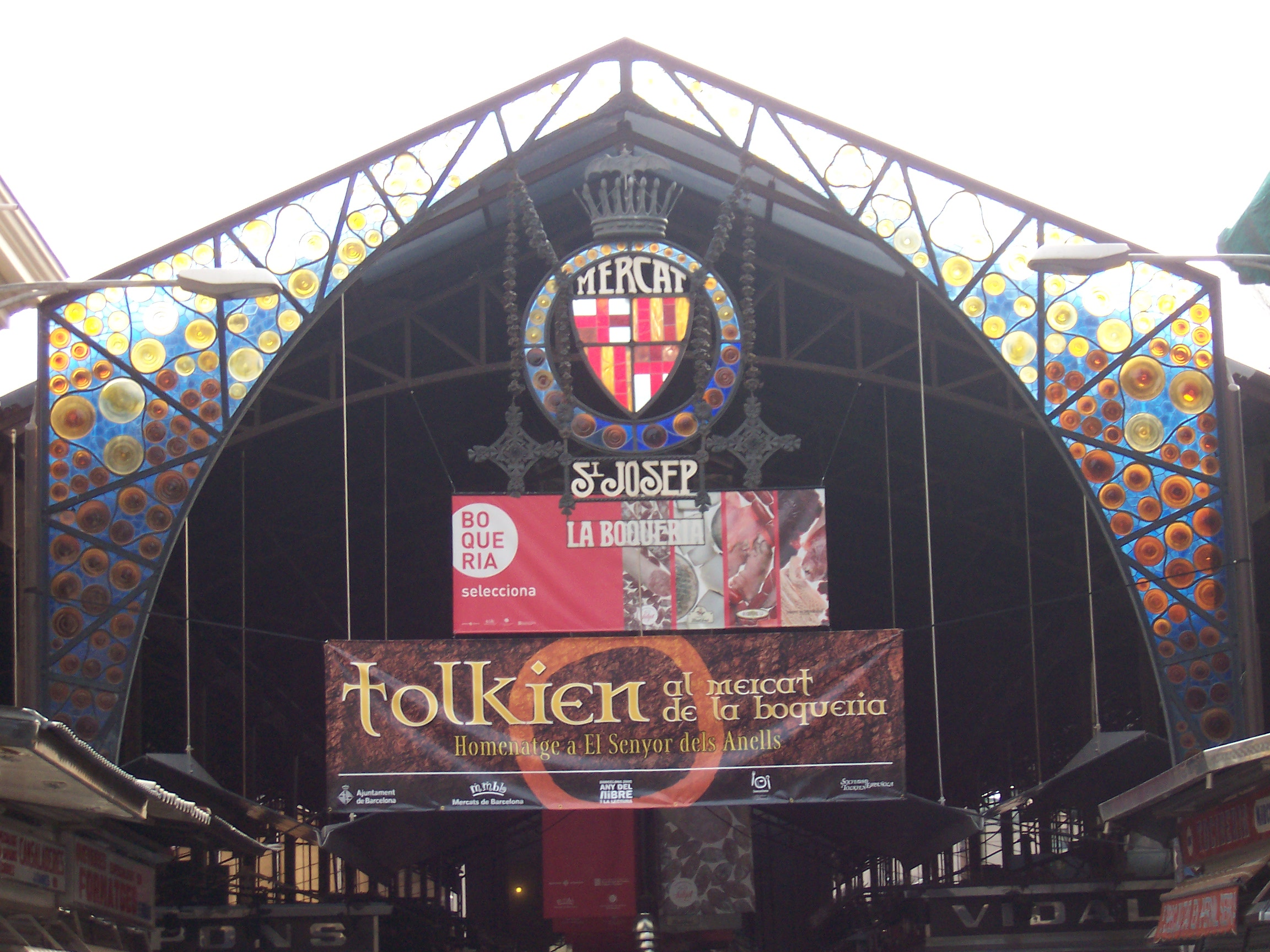 Boquería Market, in Les Rambles (The Avenues), Barcelona.